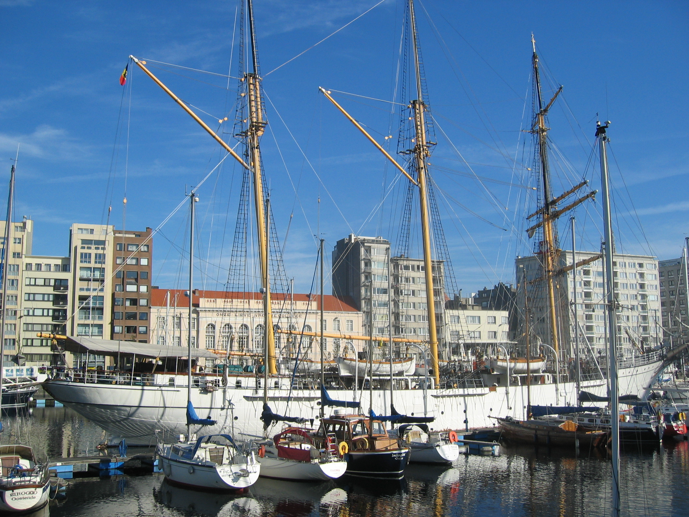 Ostend and the museumship, the brigantine Mercator.